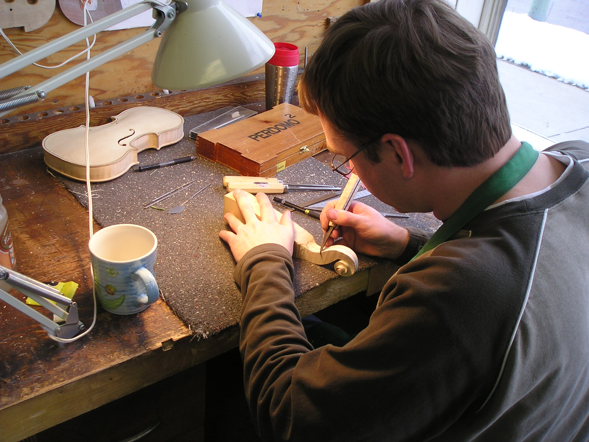 A violin scroll and finger board in the making.